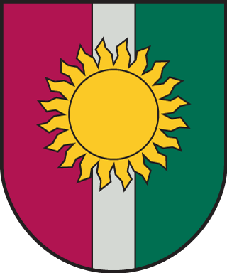 Coat of arms of Jēkabpils Municipality, Latvia.